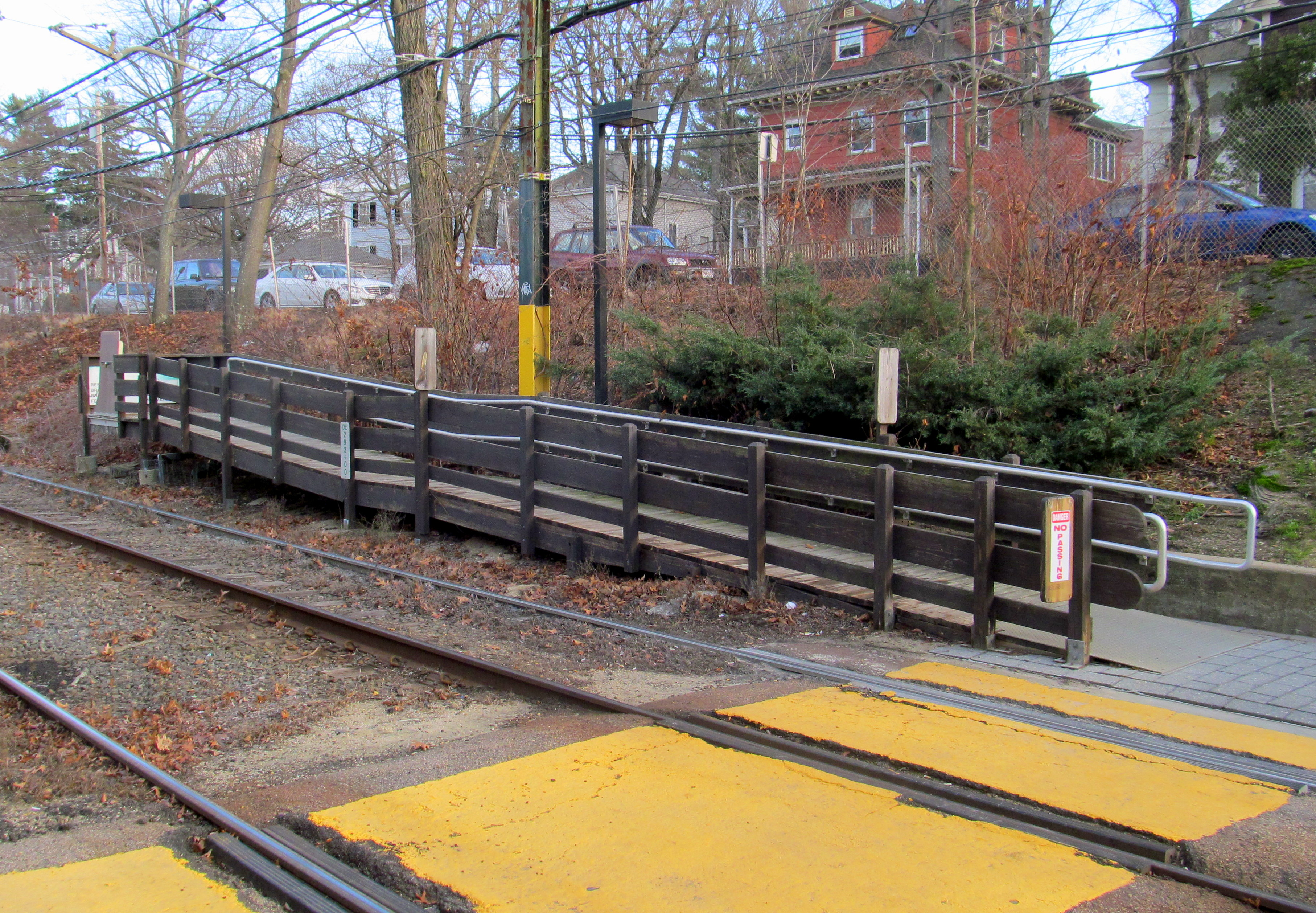 Mini-high platform for boarding high-floor cars at Newton Centre station in December 2015